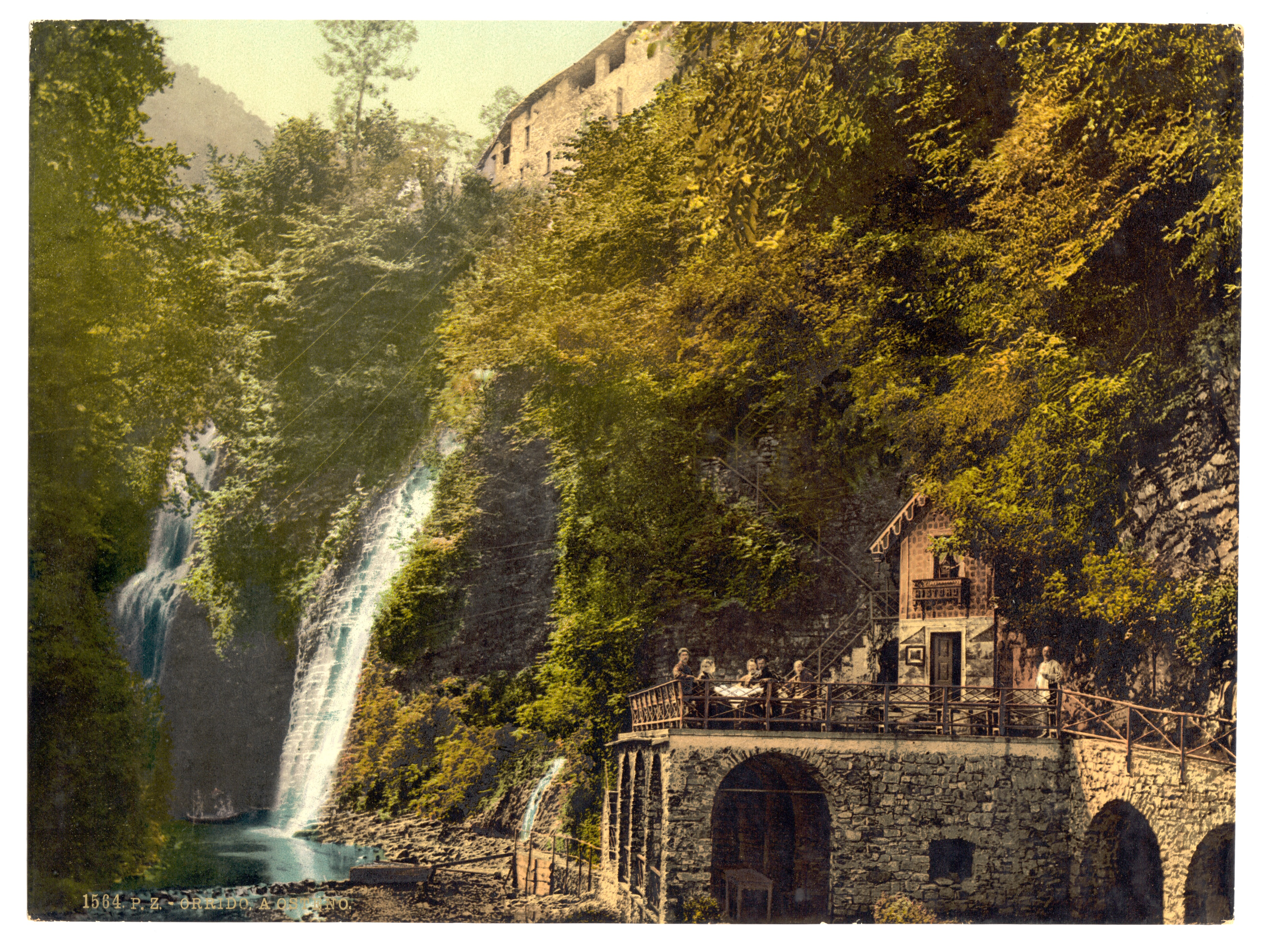 Forms part of: Views of Italy in the Photochrom print collection.; Print no. "1564".; Title from the Detroit Publishing Co., Catalogue J-foreign section, Detroit, Mich. : Detroit Publishing Company, 1905.